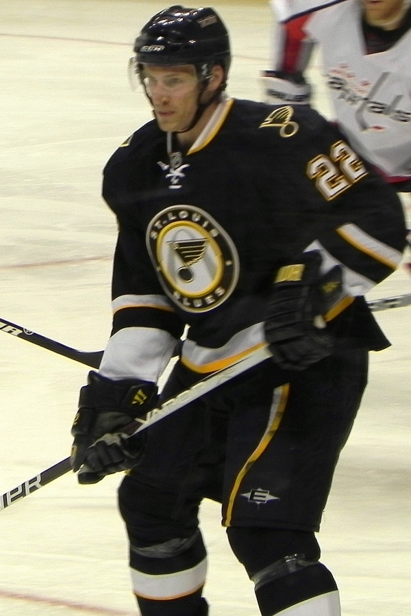 Brad Boyes (#22) playing for the Buffalo Sabres.